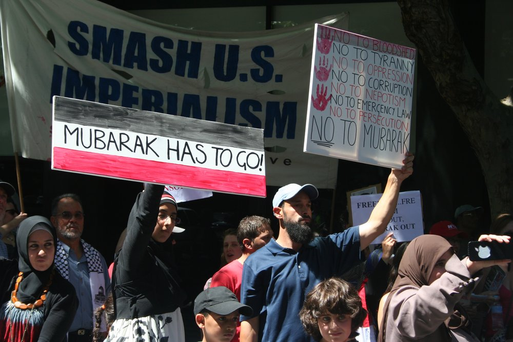 200 people rallied outside the Egyptian Consulate In Melbourne. Temperatures were hot reaching 40 degrees today, but the skyscrappers and trees in Market Street made the rally bearable.